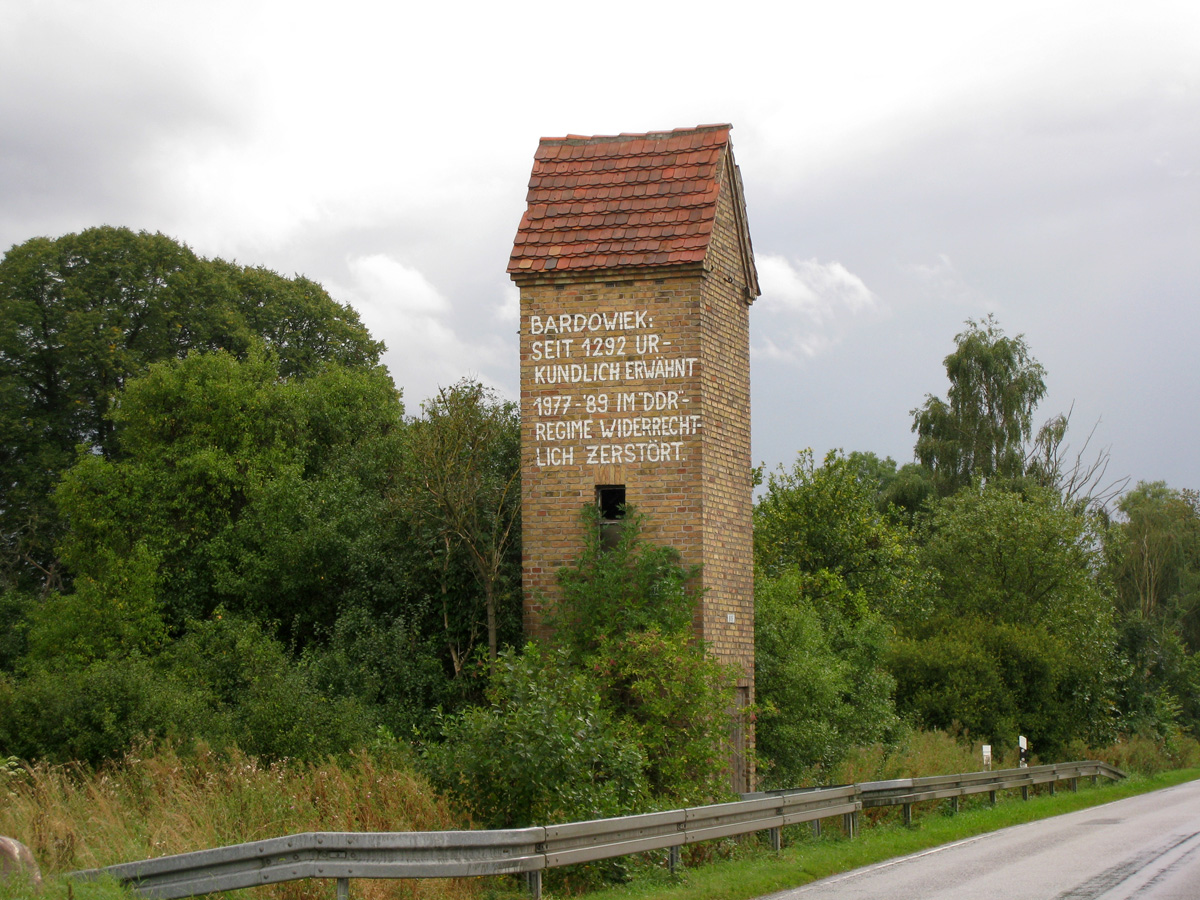 Power transformer substation at Bardowiek, Mecklenburg-Vorpommern. This is all that remains of the border village which was razed in the 1970s by the GDR authorities. Inscription reads: Bardowiek: mentioned in historical records since 1292; illegally destroyed between 1977 and 1989 by the 'DDR' regime.